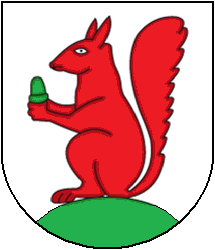 Coat of arms of Damphreux, Canton of Jura, Switzerland